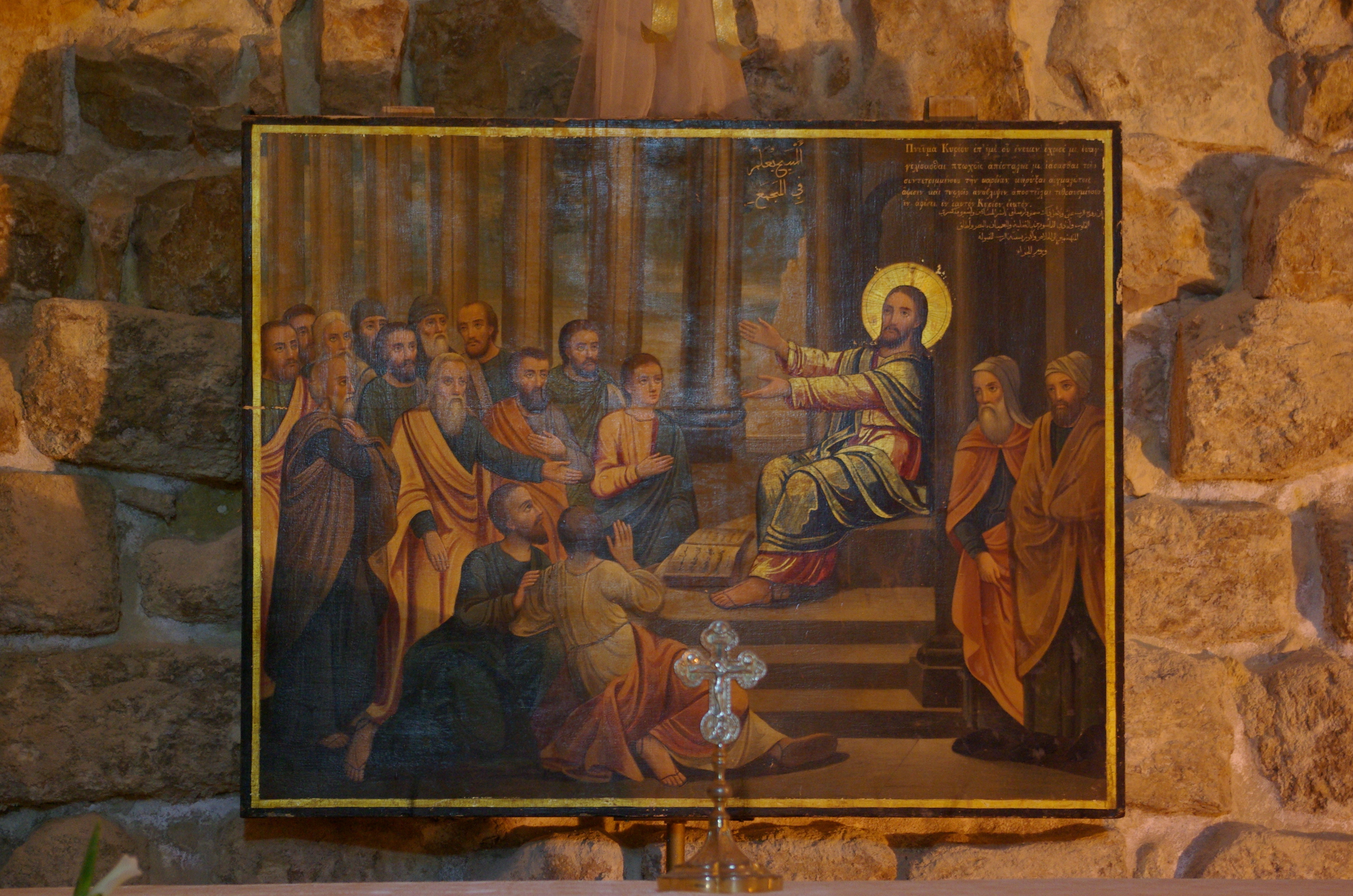 Nazareth, Synagogue Church, painting in the ancient synagoge